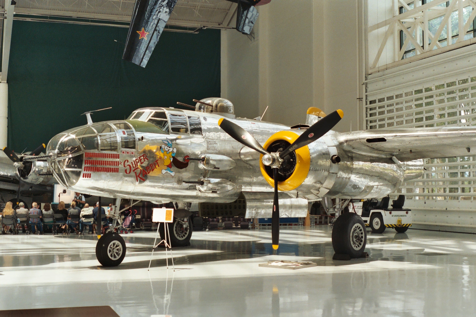 Photograph I shot of a B-25 Mitchell, believed to be a B-25J, at the Evergreen Aviation Museum in McMinnville, Oregon.